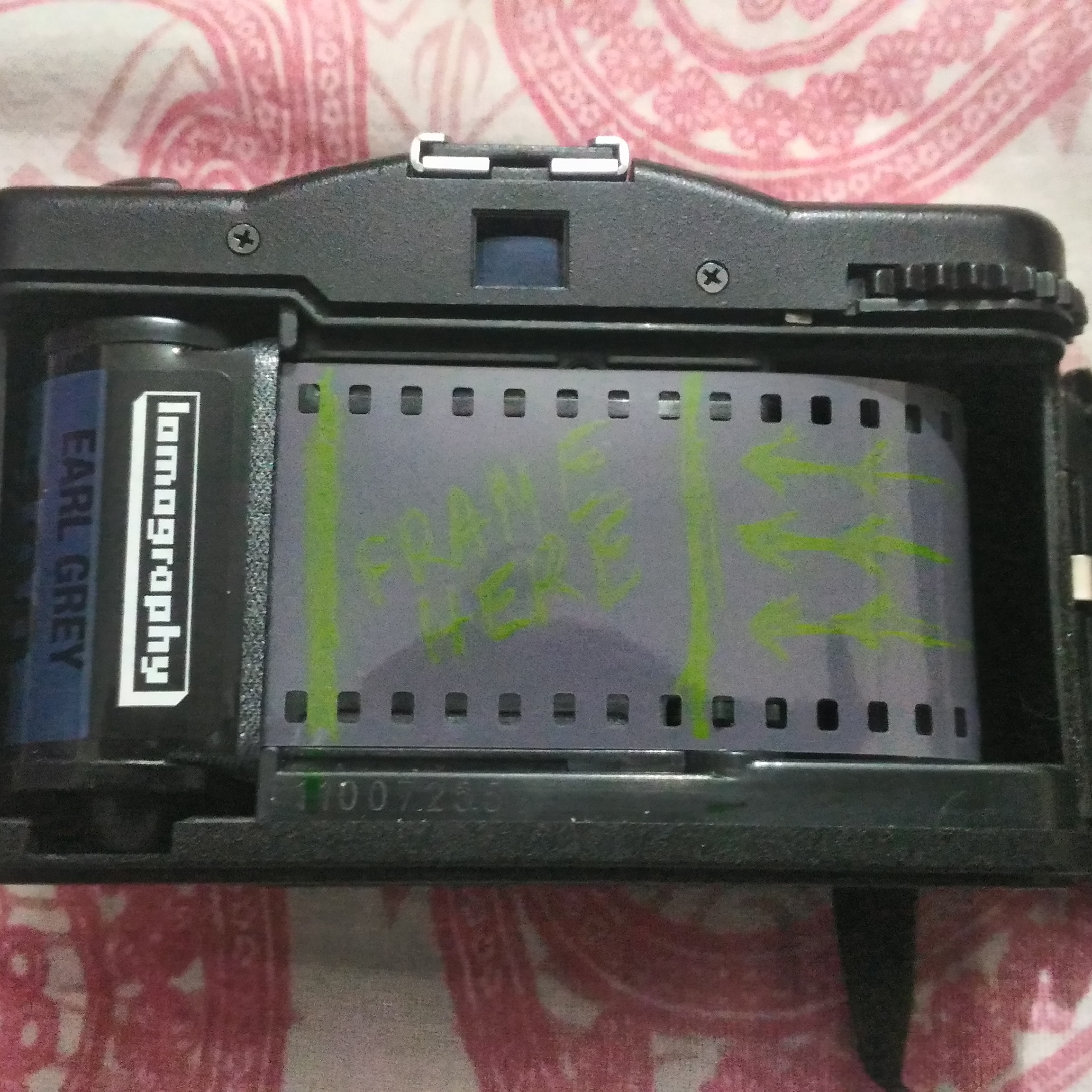 Before loading film, the first film swapper marks the film, aligned to the frame. The second film swapper, by aligning the marks on the film, makes sure that he/she shoots on the same frame as the first swapper did.